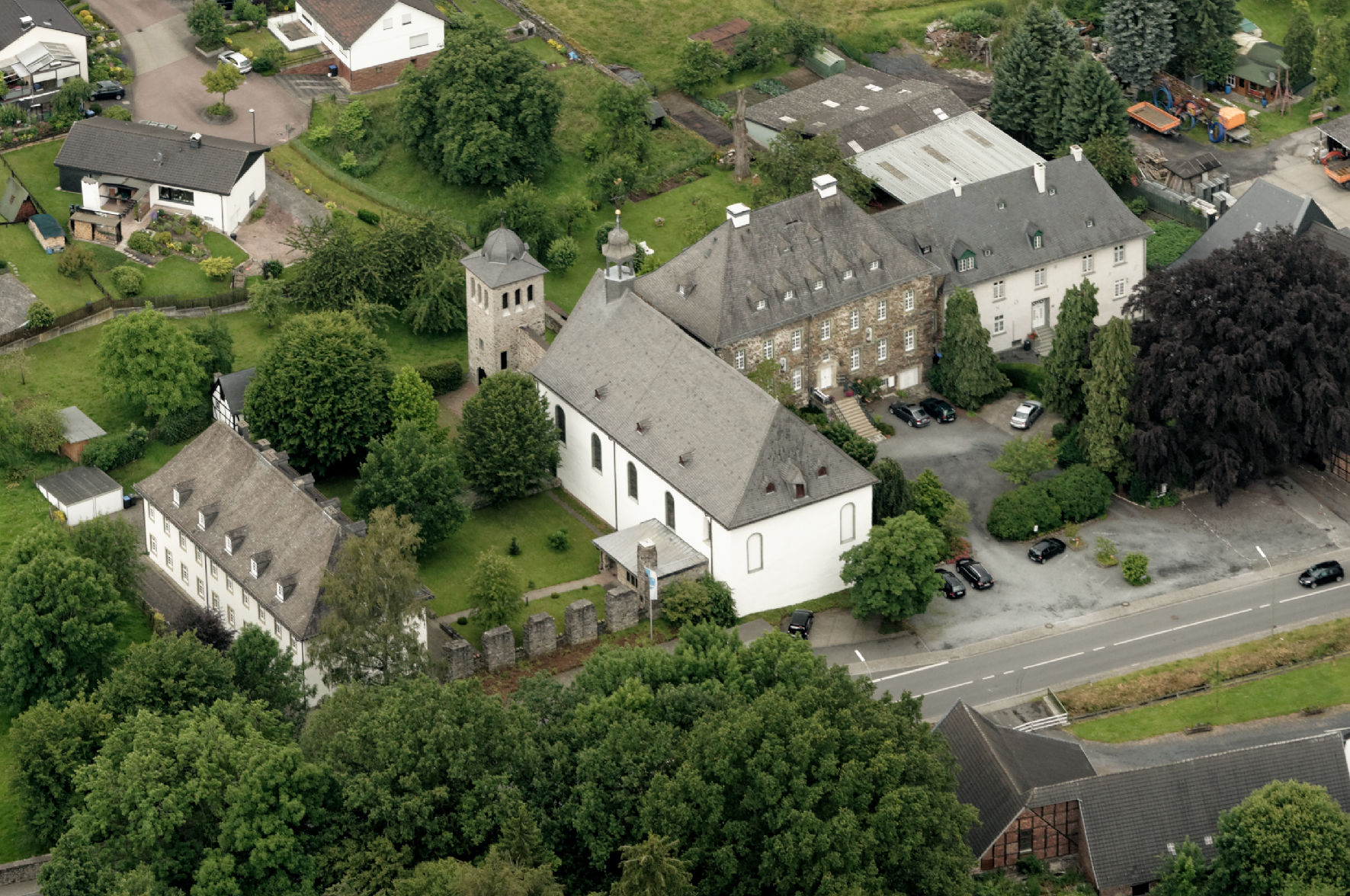 Arnsberg: Kloster Rumbeck (Fotoflug Sauerland Nord) The making of this document was supported by the Community-Budget of Wikimedia Germany.